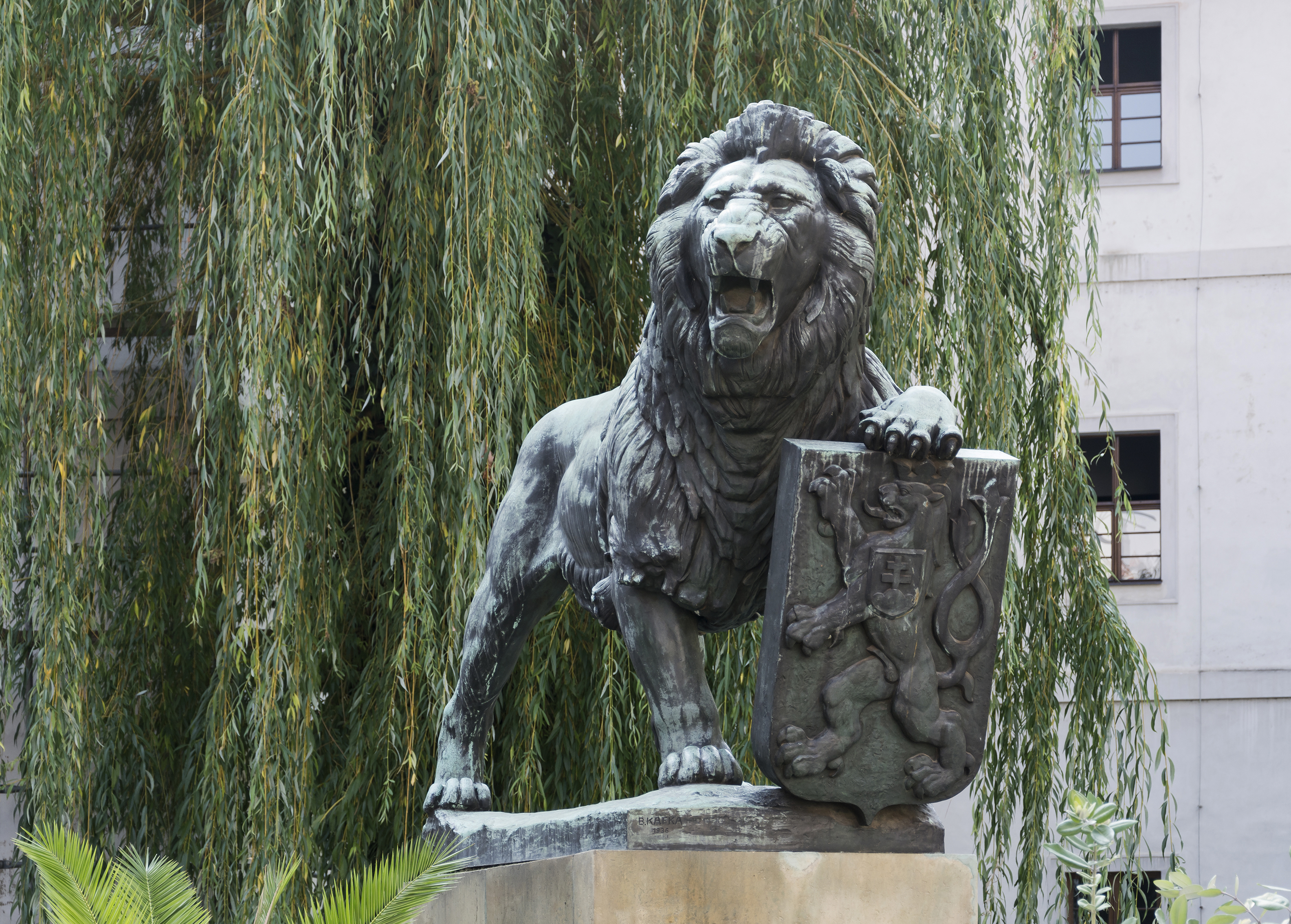 Monument at Strahov Monastery in Prague